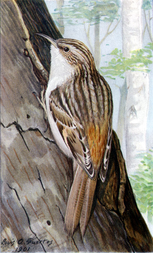 Brown Creeper, Certhia americana, chromolithograph after painting (watercolor or acrylic)